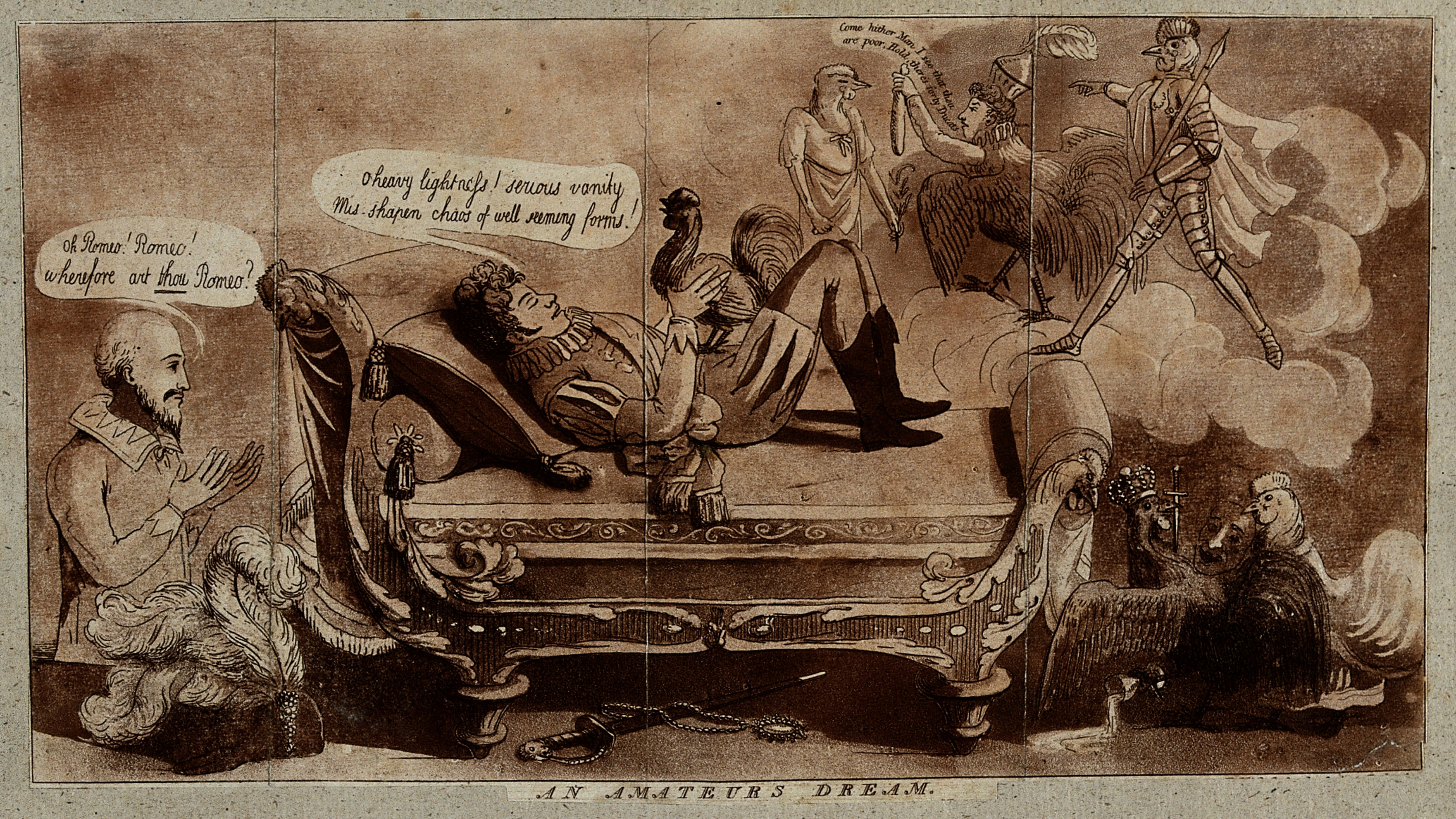 The amateur actor Robert Coates dreaming about his success on the stage in the role of Romeo. Aquatint attributed to "The Caricaturist General", 1812. Iconographic Collections Keywords: Caricaturist General; Robert Coates; William Shakespeare; Romeo